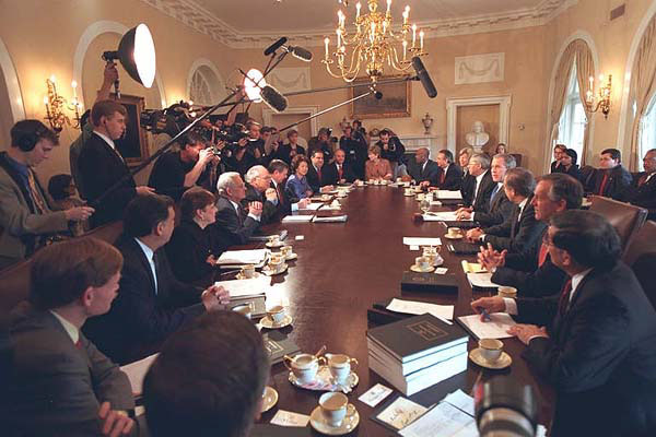 2001 meeting of the United States Cabinet under George W. Bush presidency in the Cabinet Room, White House.